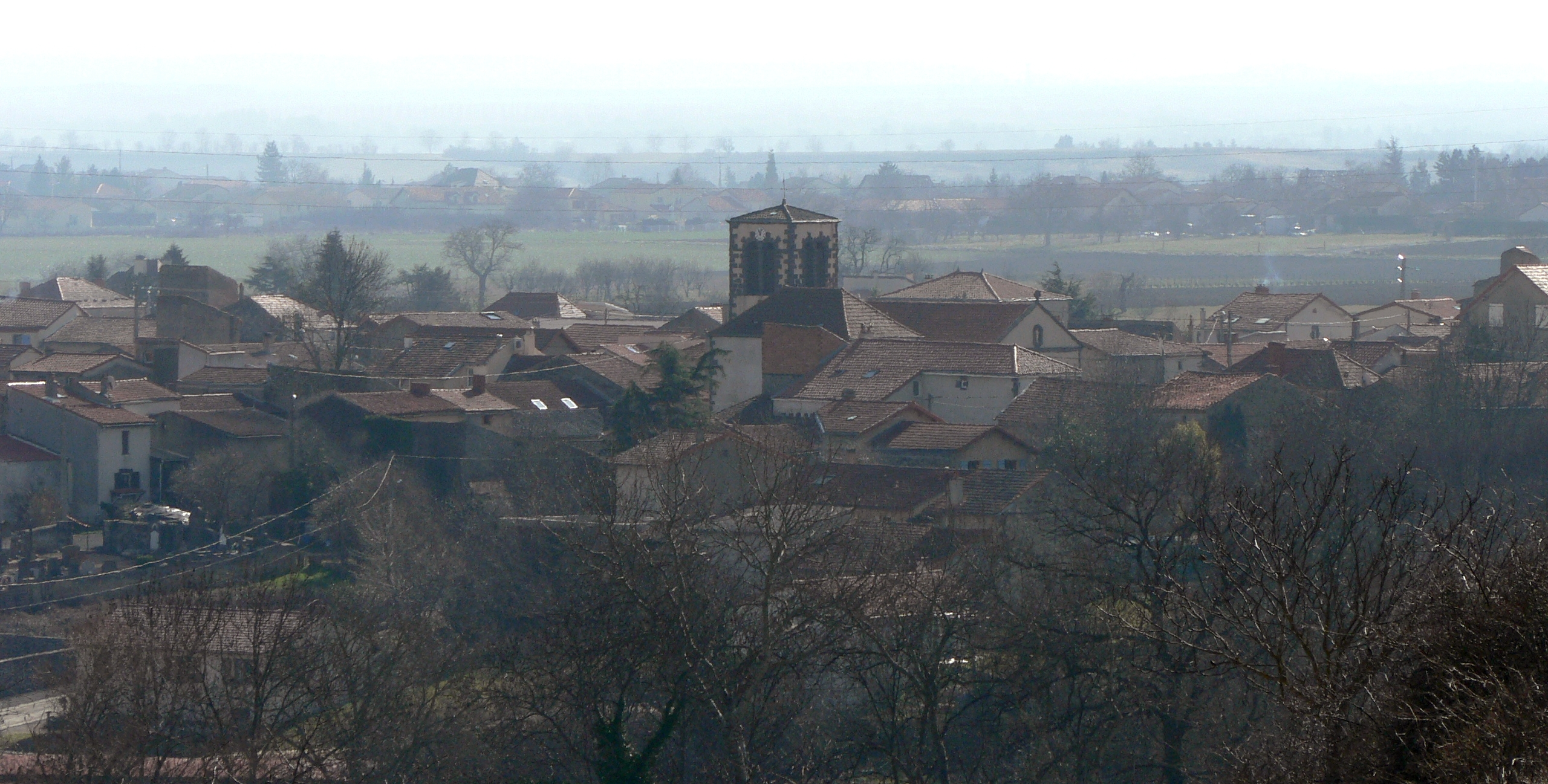 Village of Yssac-la-Tourette (Puy-de-Dôme, France).